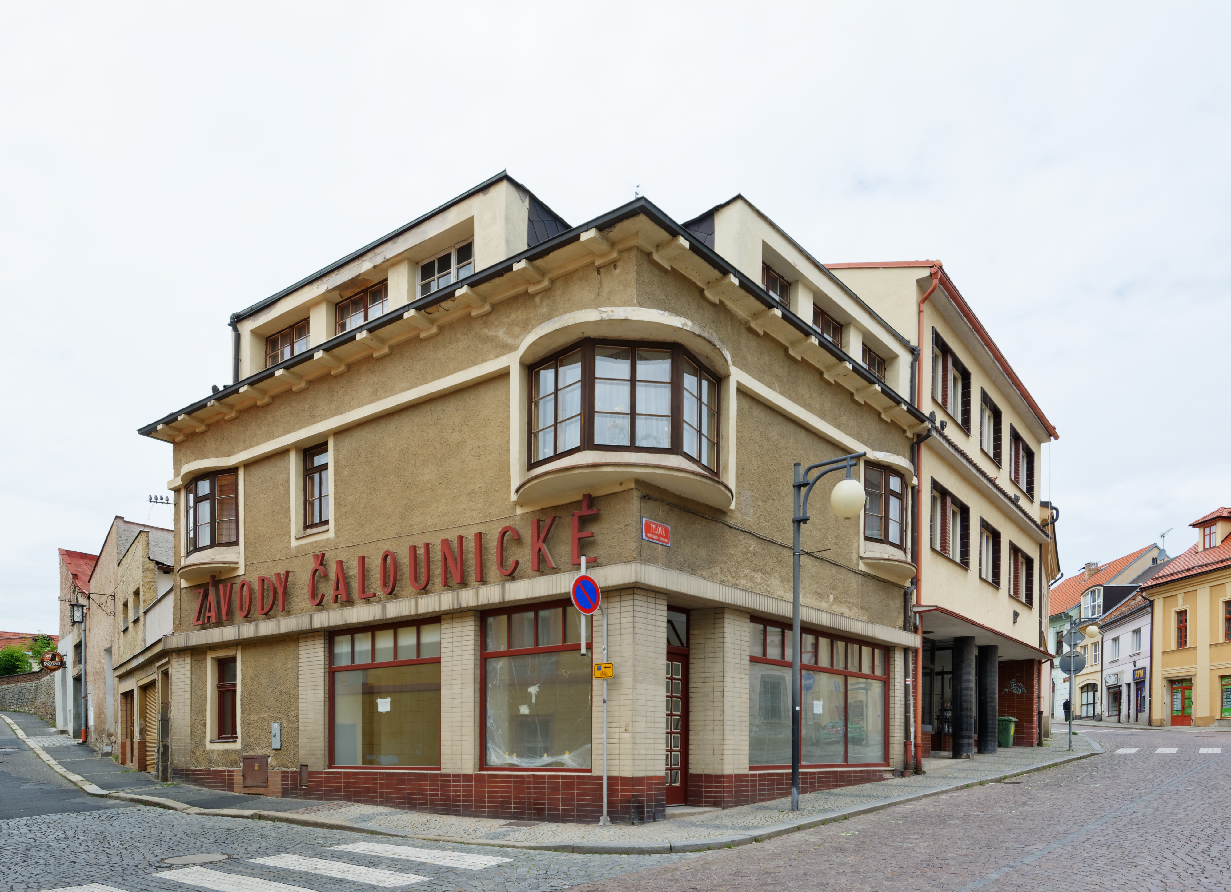 Antonín Brožek Department Store, Kutná Hora - Vnitřní Město, No. 498, Roháčova 28, corner with Tylová Street. Architect: Rudolf Ryšán, built 1924-1925.